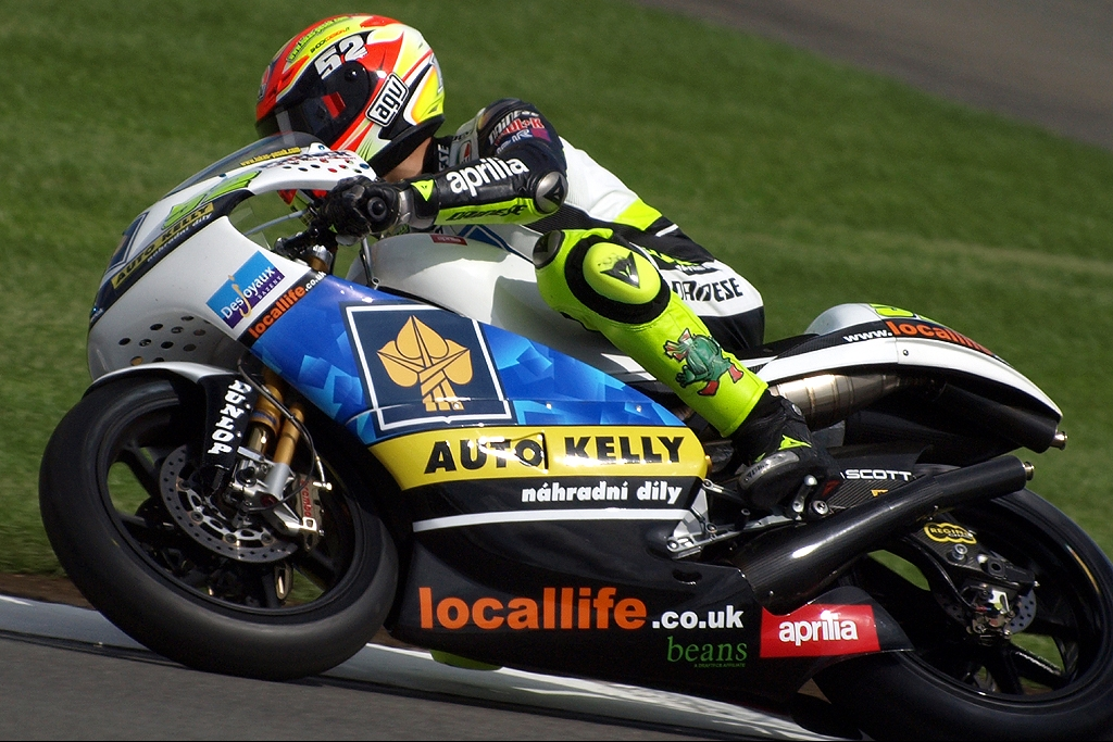 Lukas Pesek Auto Kelly - CP MotoGP 250cc